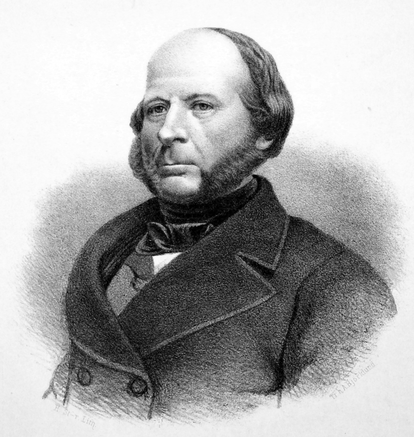 Portrait of John Ericsson from the book "Svenska industriens män" (1875)